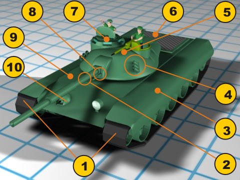 Combat tank graphics description. Tracks Main gun Track covers Smoke dischargers AA machine gun Engine cover Commanders cupola Coaxial machine gun Glacis plate Hull machine gun